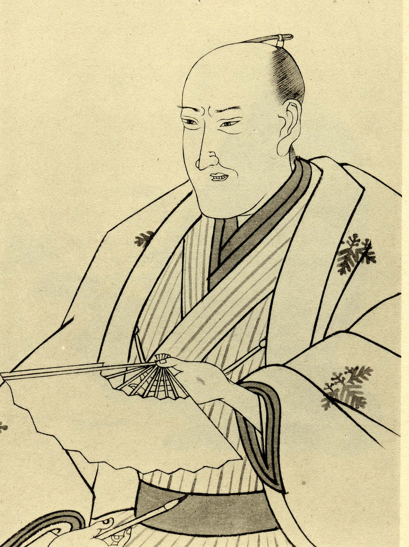 Shikitei Sanba (式亭 三馬) was a Japanese comic writer of the Edo period.